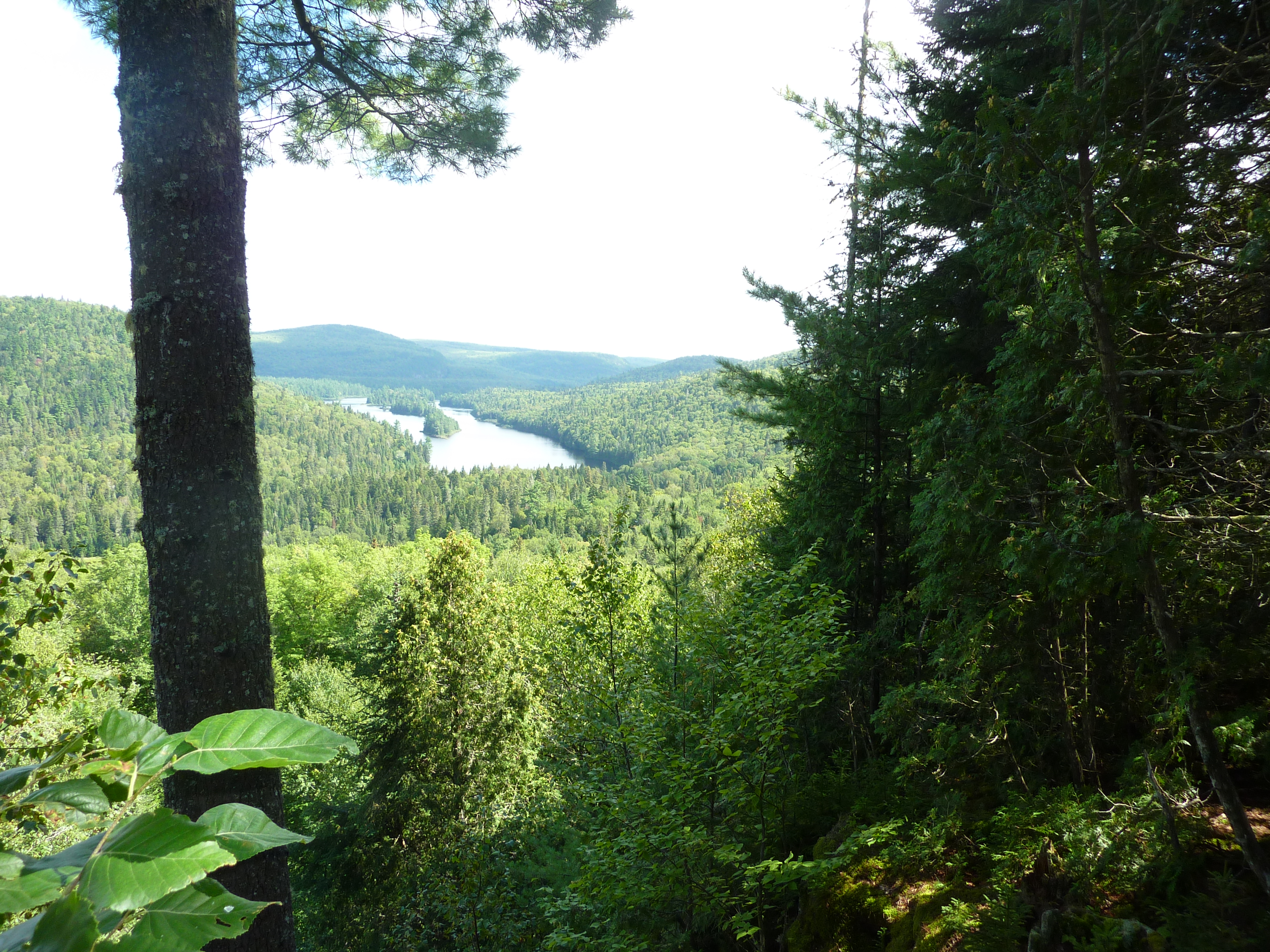 Lake Wapizagonke, in La Mauricie National Park, Quebec (Canada). To reach this vista point, one must cross Lake Wapizagonke and walk through a path in the forest.